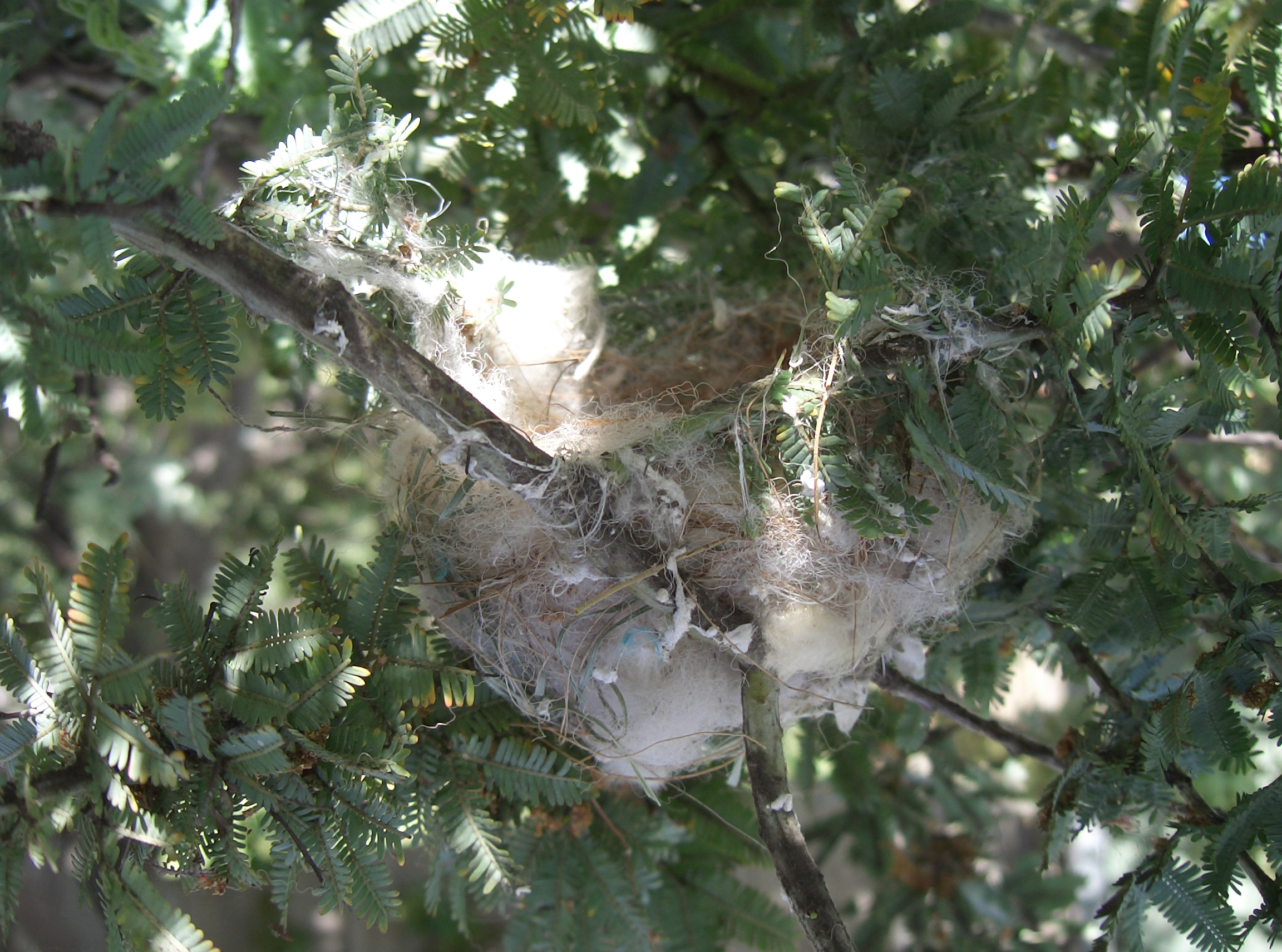 Lichenostomus penicillatus (white-plumed Honeyeater) nest, as seen from the side view. In Melbourne, Australia.